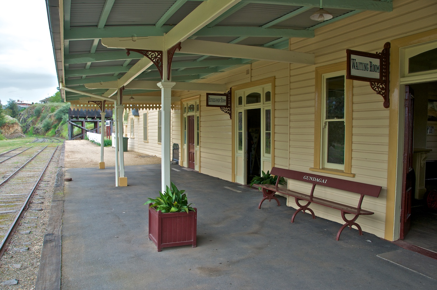 Gundagai railway station, NSW, Australia